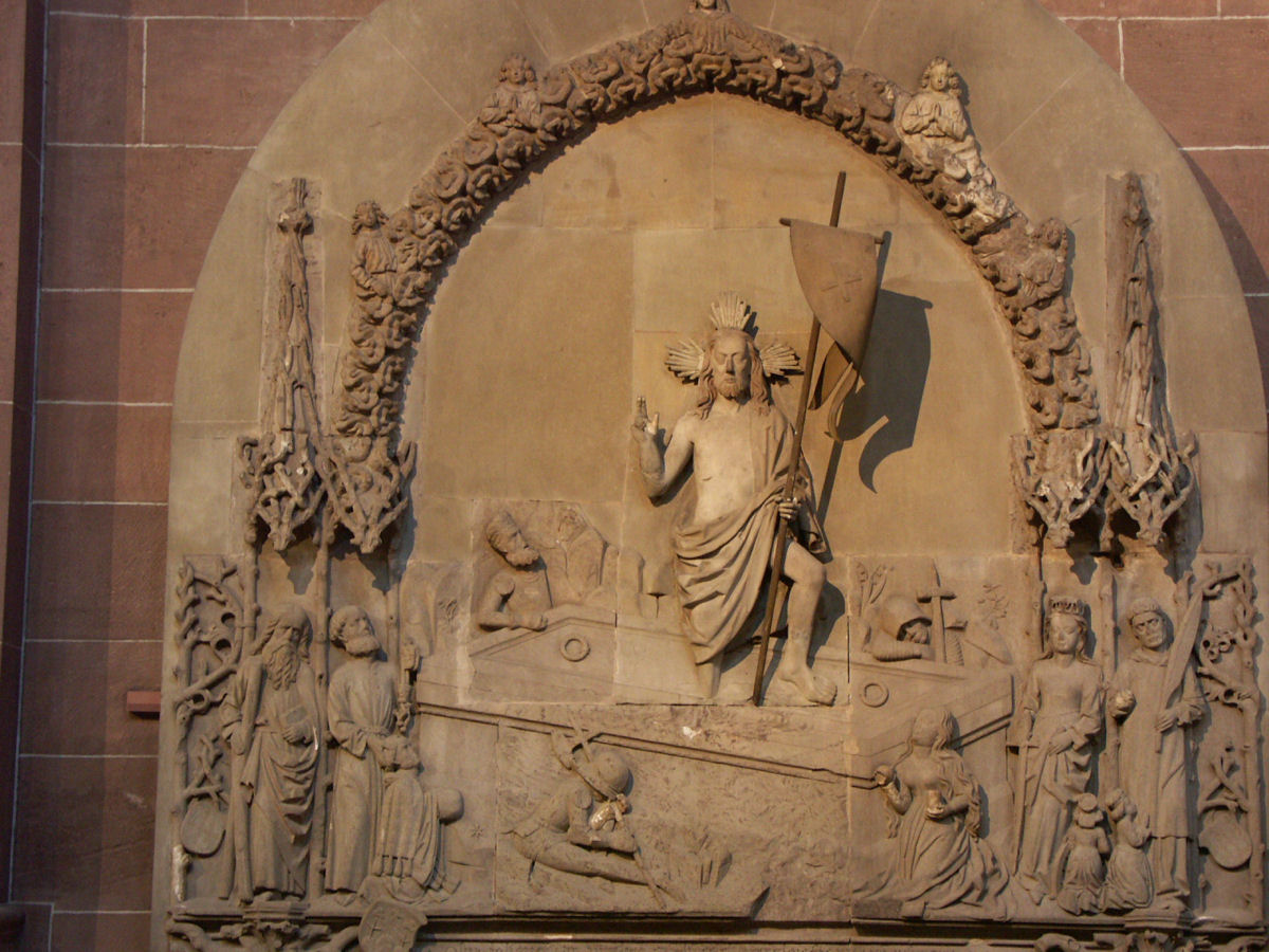 Cathedral St. Peter (Dom St. Peter), Worms, Germany - Tympanum - Resurrection of Christ